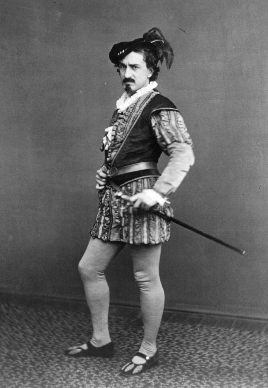 Photographic full-length portrait of Edwin Booth as Iago in Shakespeare's Othello, the Moor of Venice